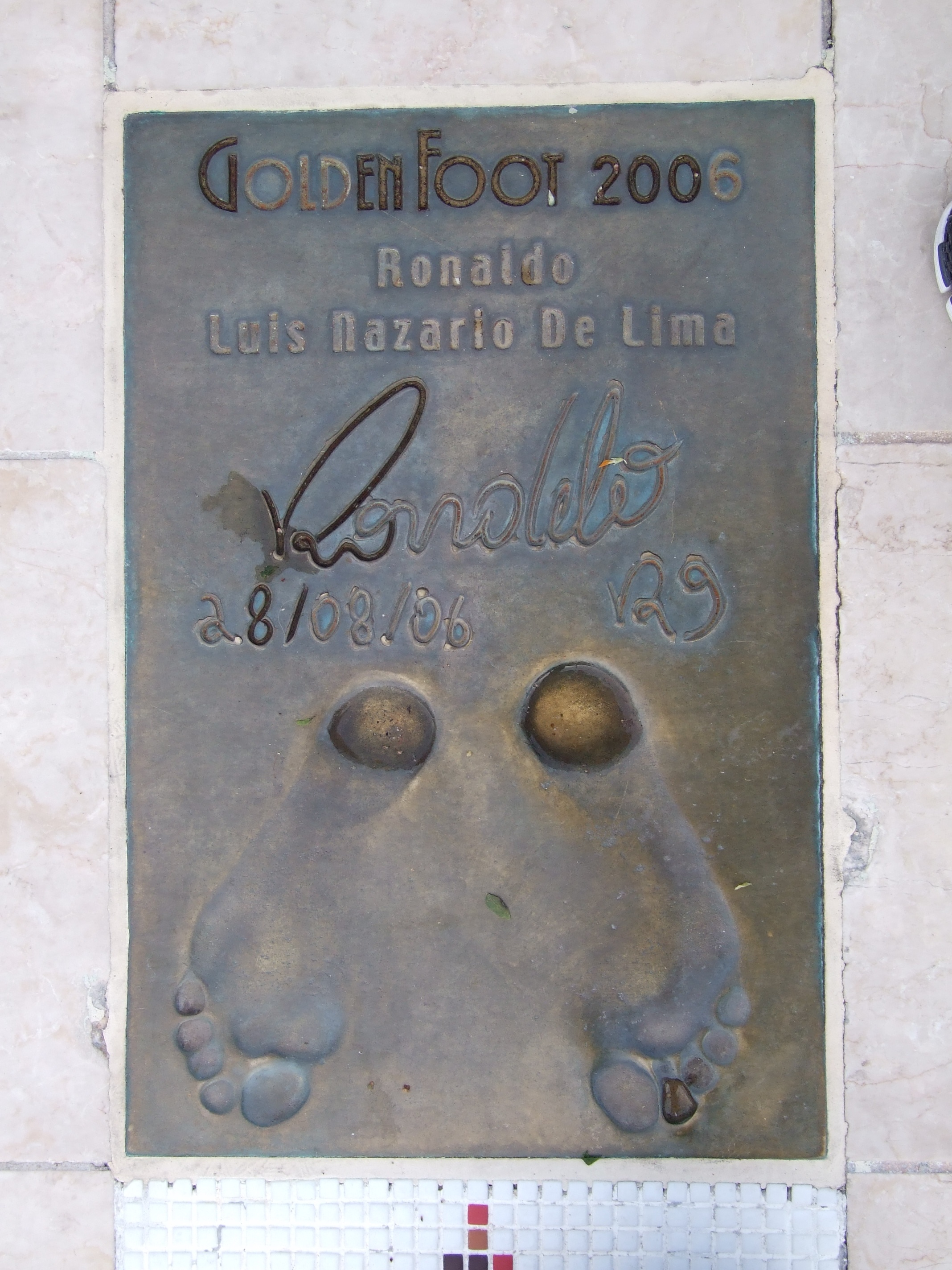 Footprint of Ronaldo in "The Champions Promenade", on the seafront of the Principality of Monaco.